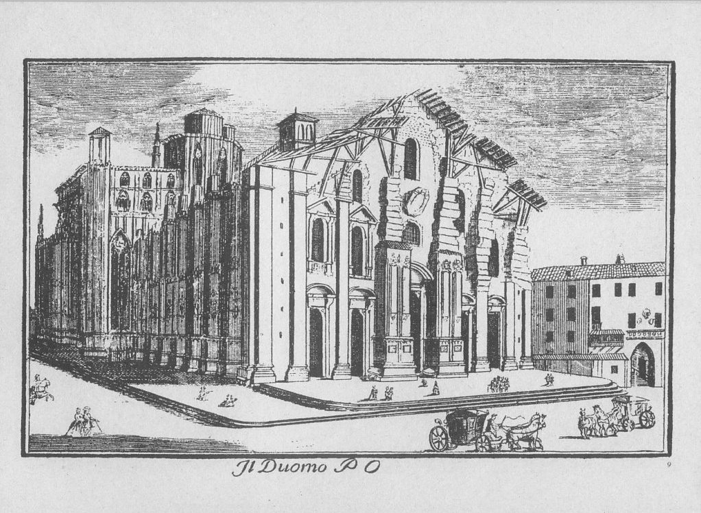 Marc'Antonio Dal Re (1697-1766), "Milan's cathedral". This engraving is # 09 from a set of 88 Vedute di Milano ("Views of Milan") published by Del Re around 1745.